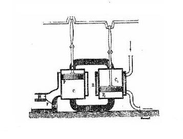 Diagram of a Franchot hot air engine invented in 1854 by French engineer Charles-Louis-Félix Franchot. The engine is similar to the earlier Stirling engine but with two double acting cylinders which minimised thermal loses. The hot cylinder is on the left and the cold cylinder is on the right. The pistons move with a 180 degree phase difference. Air is the working fluid. The left hand cylinder (C) is surrounded by flue gasses from a furnace. The right hand cylinder (C1) has a jacket of flowing cold water. As the pistons move hot air is pushed into the cold cylinder via the U shaped pipes above and below the cylinders and back again. These pipes contain a 'regenerator' material like steel wool that retains the heat temporarily outside of the working fluid. The air expands and contracts as it experiences different temperatures in the two cylinders. This expansion increases the pressure and exerts a force on the piston face which turns the crank. The contraction reduces the pressure in that end of the cylinder. Franchot's innovation was to make the cylinders 'double acting' so pressure was alternatively applied to the upper and lower surfaces of each piston head.